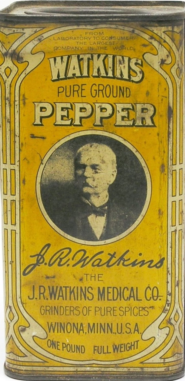 Watkins Pepper Tin - Front